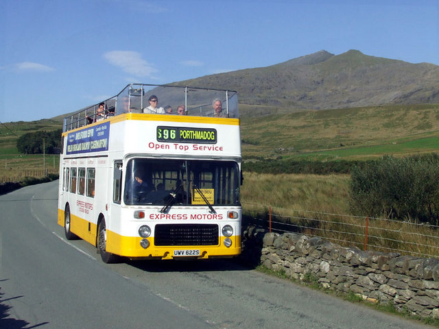 Express Motors have, in recent years, been running this splendid ex-Southdown 1978 Bristol VR (UWV 622S) on a seasonal service (as part of the Snowdon Sherpa network) linking the Ffestiniog Railway at Porthmadog with its sister the Welsh Highland Railway at Rhyd Ddu (at the foot of Snowdon). For walkers or rail enthusiasts it's an important link. This view shows the bus returning to Porthmadog with Rhyd Ddu ascent and Snowdon summit visible behind.